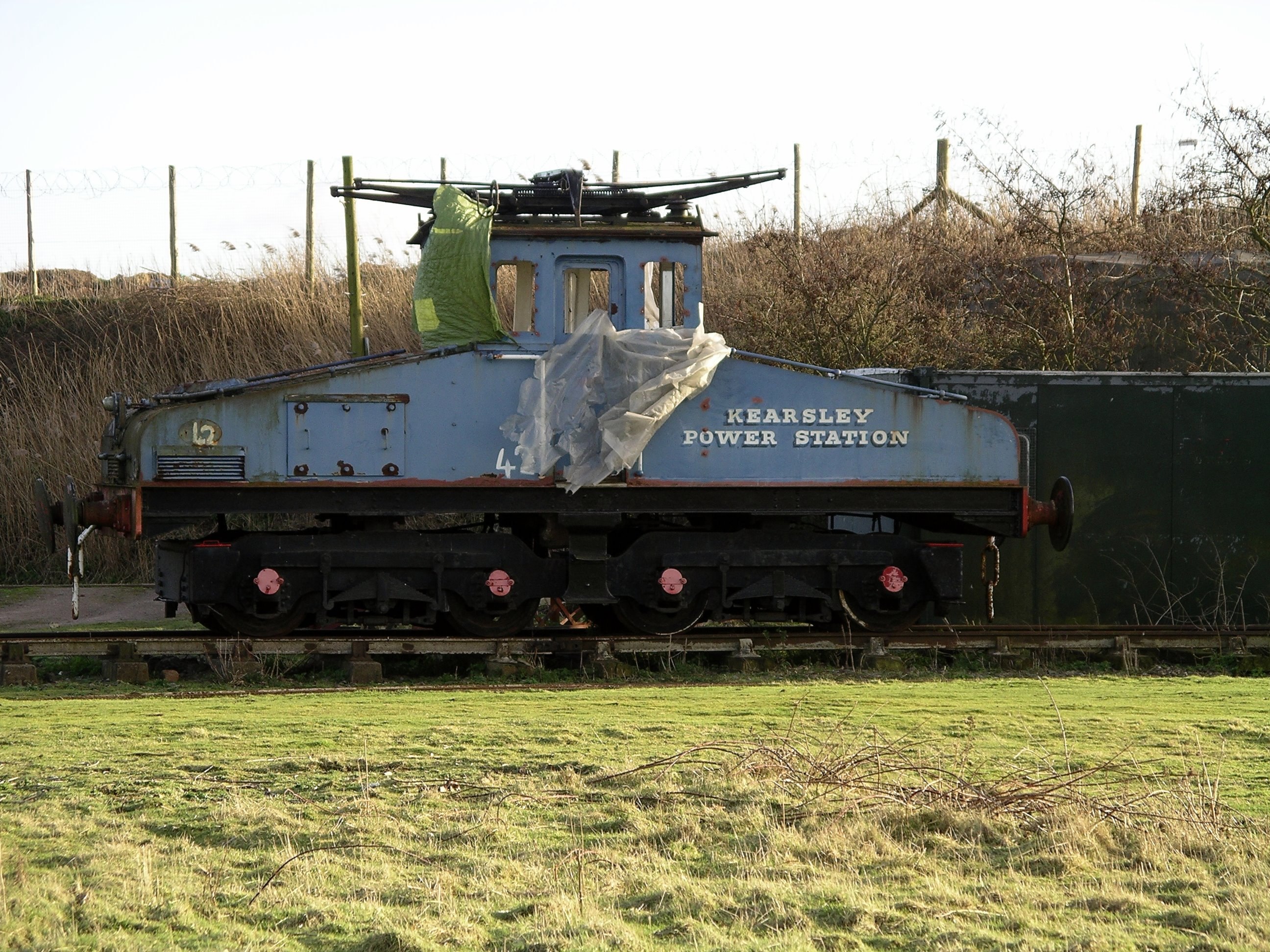 A Kearsley Power Station electric locomotive, at the Coventry Railway Centre, near Coventry, Warwickshire, England. Kearsley Power Station No. 1 - Bo-Bo Overhead 550vDC Electric Loco b. 1928 Hawthorn Leslie Wks No. 3682